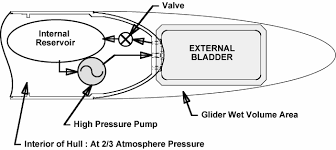 Oil is taken from the reservoir and is pumped into the bladder to decrease density and increase buoyancy. Oil is transferred from the bladder back into the reservoir to increase density and decrease buoyancy.